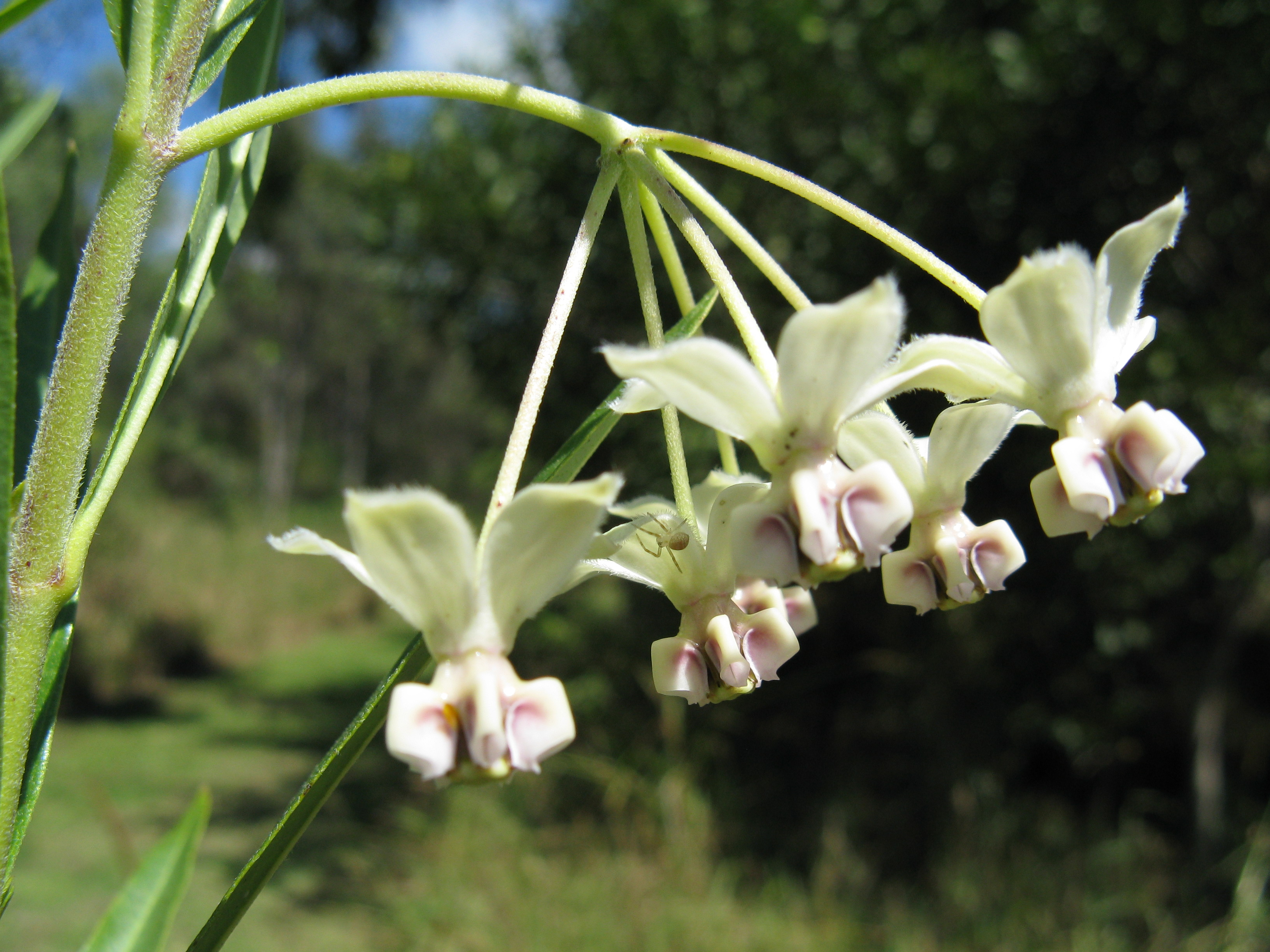 Gomphocarpus Physocarpus 'with spider' (syn. asclepias physocarpa)